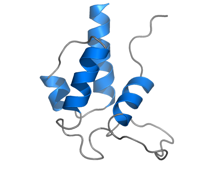 C. Arthur